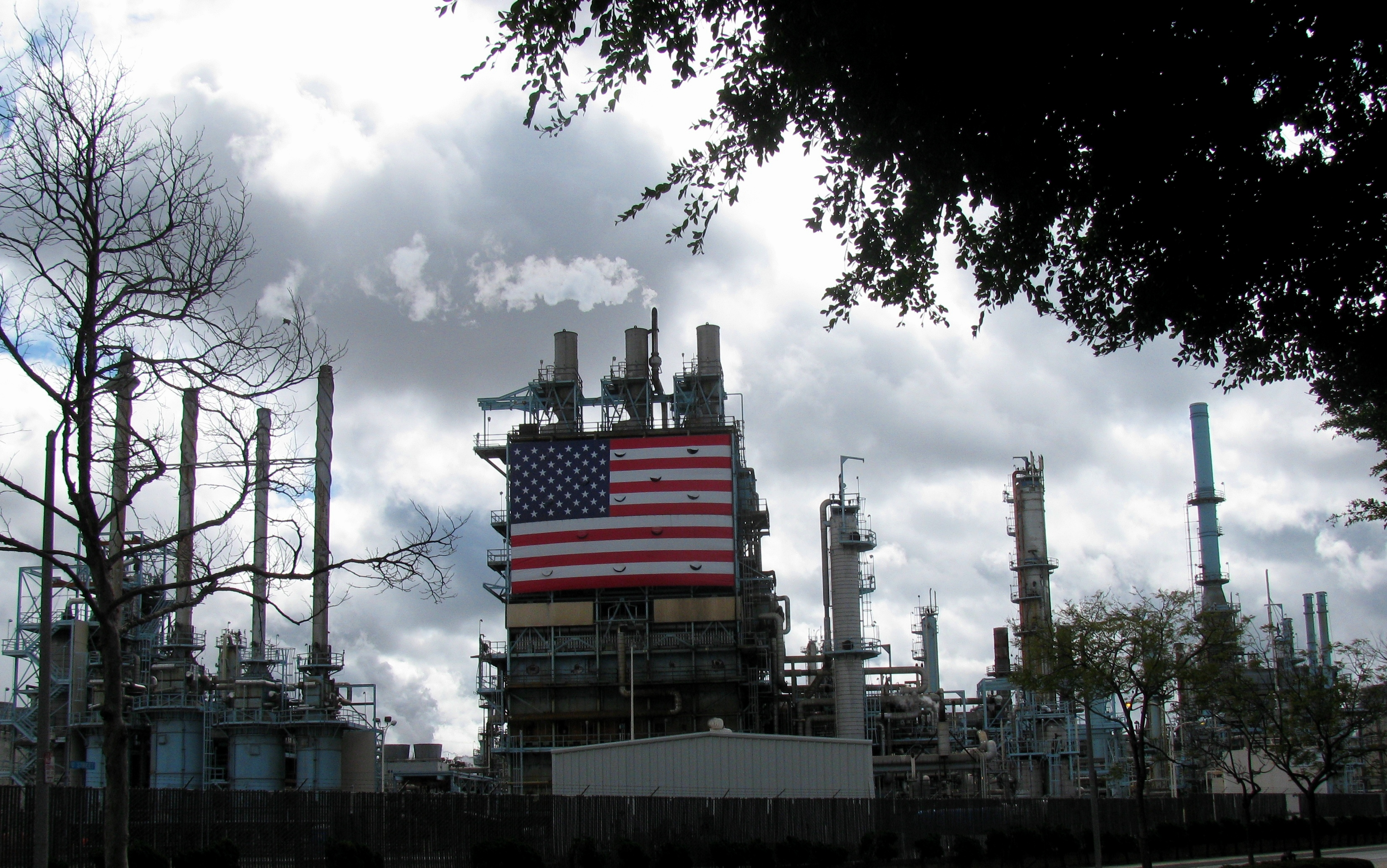 BP refinery in Carson, CA. Photo by self, GFDL/equiv.